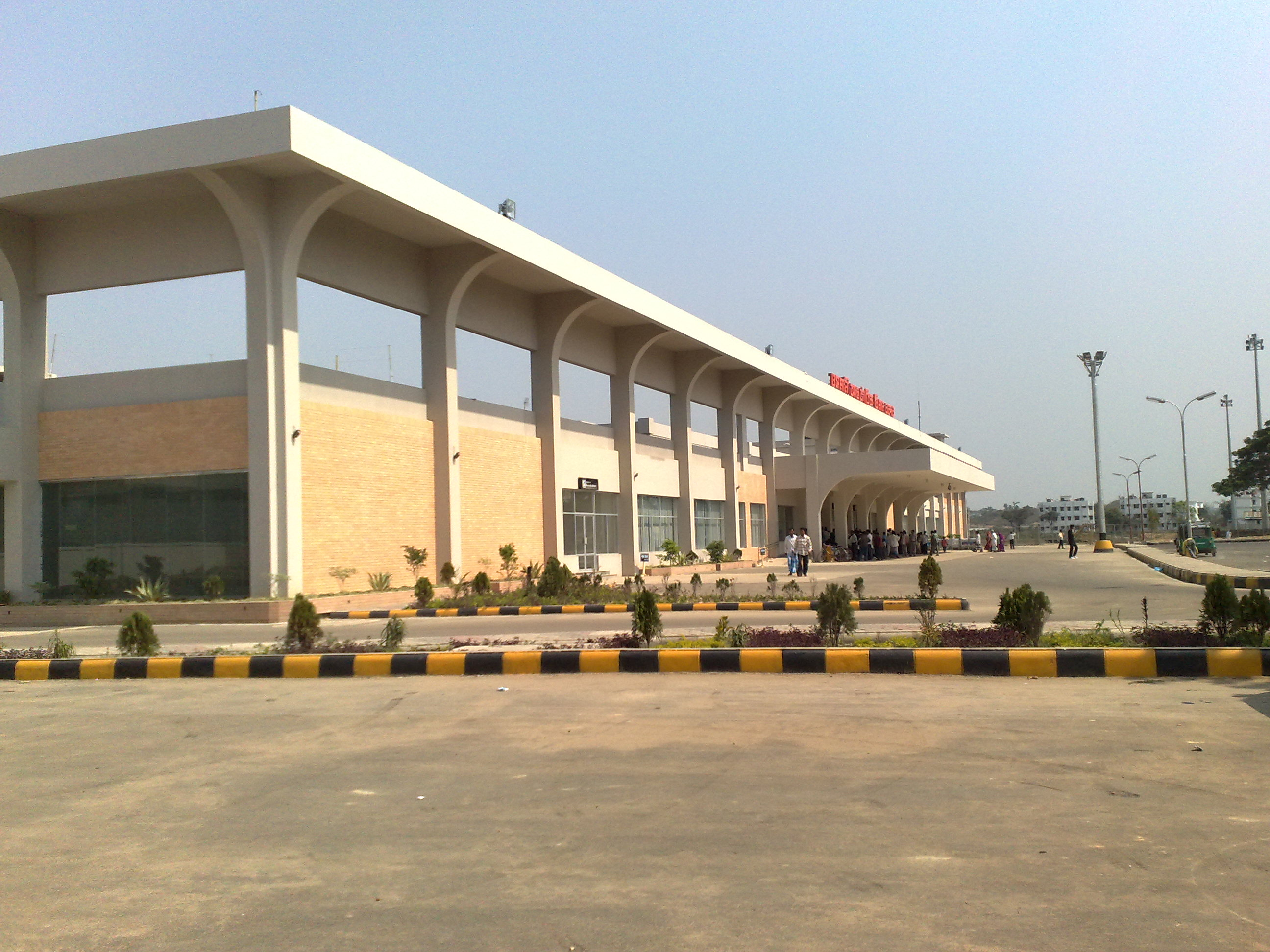 Right of Osmani international airport Sylhet.